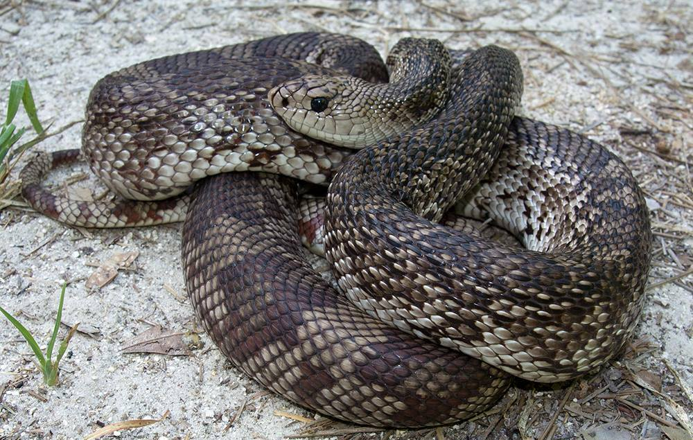 Suwanee County FL, Pine Snake